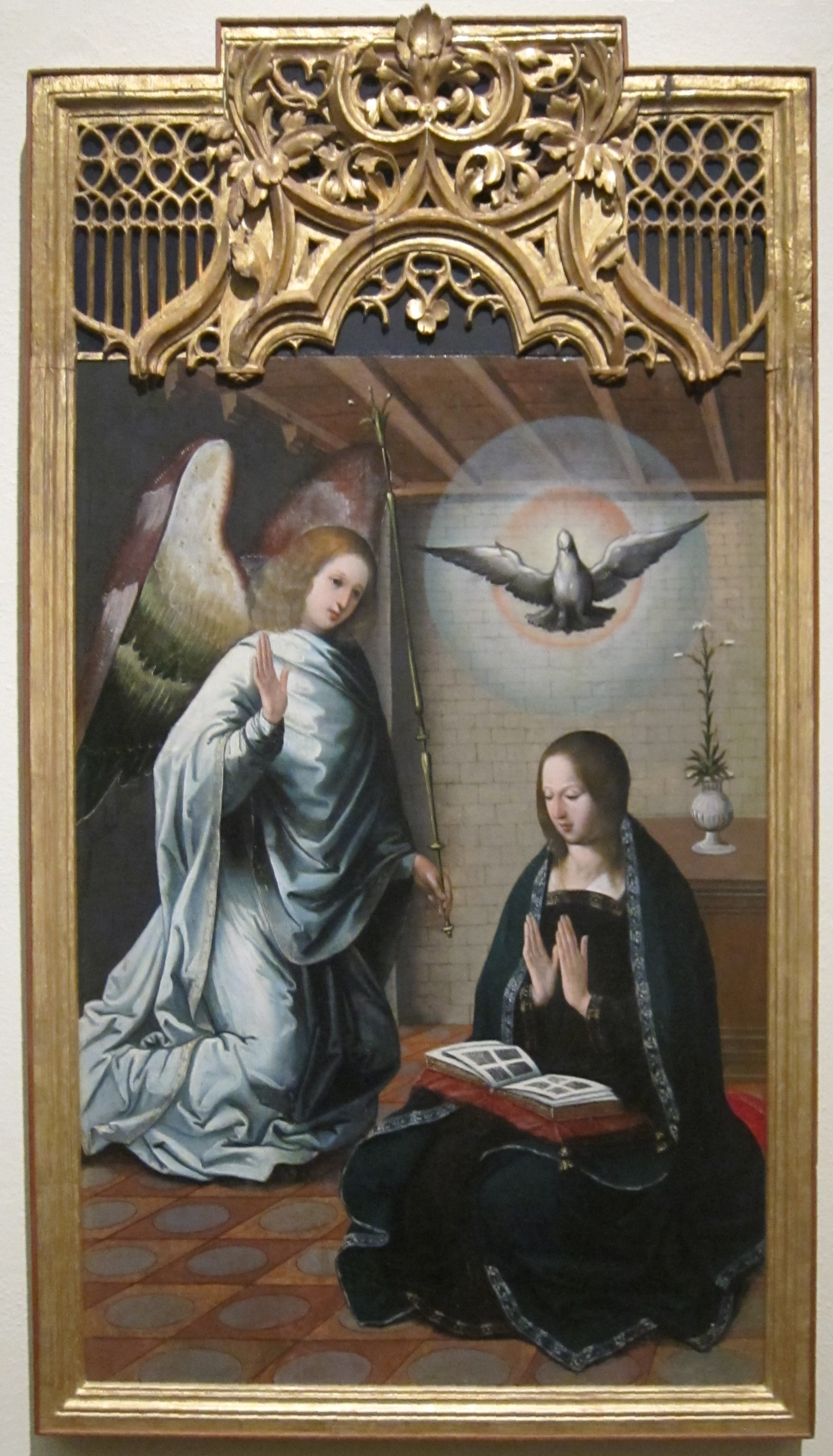 The Annunciation